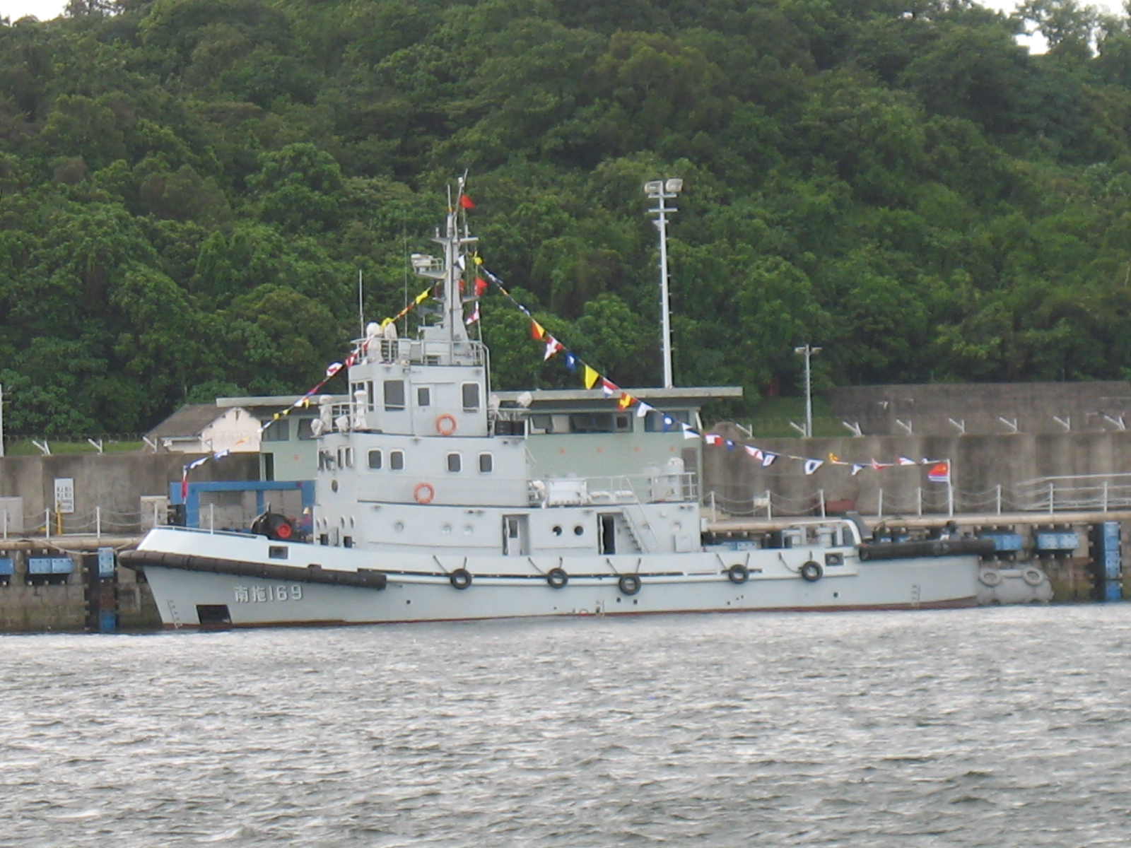 Navy Tugboat NT169 for PLA Hong Kong Garrisons, in the Stonecutters Island Naval Base.中文（香港）: 解放軍駐港部隊海軍部隊唯一一艘海軍拖船，編號是NT169， 船名為南拖169。